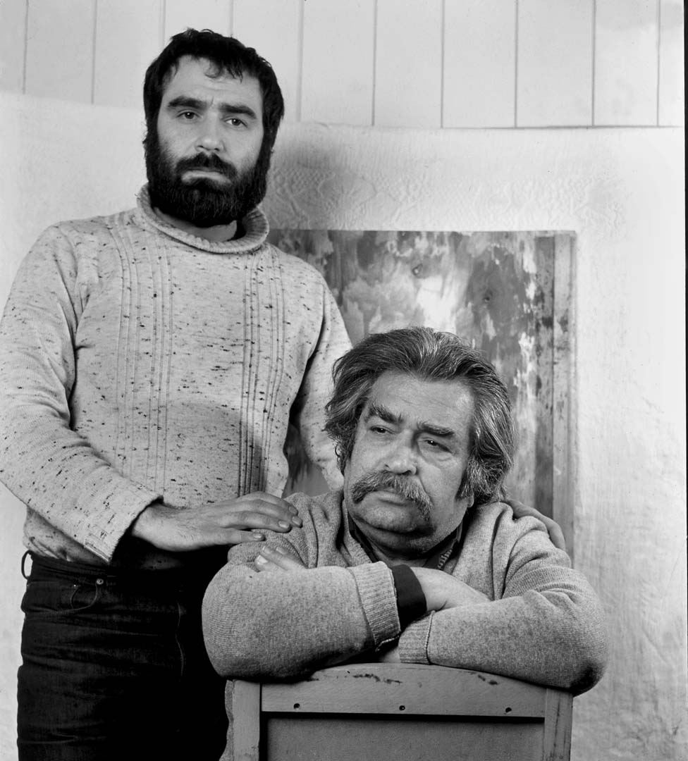 Armenian photographer image from Vahan Kochar's collection. Author:Vahan Kochar